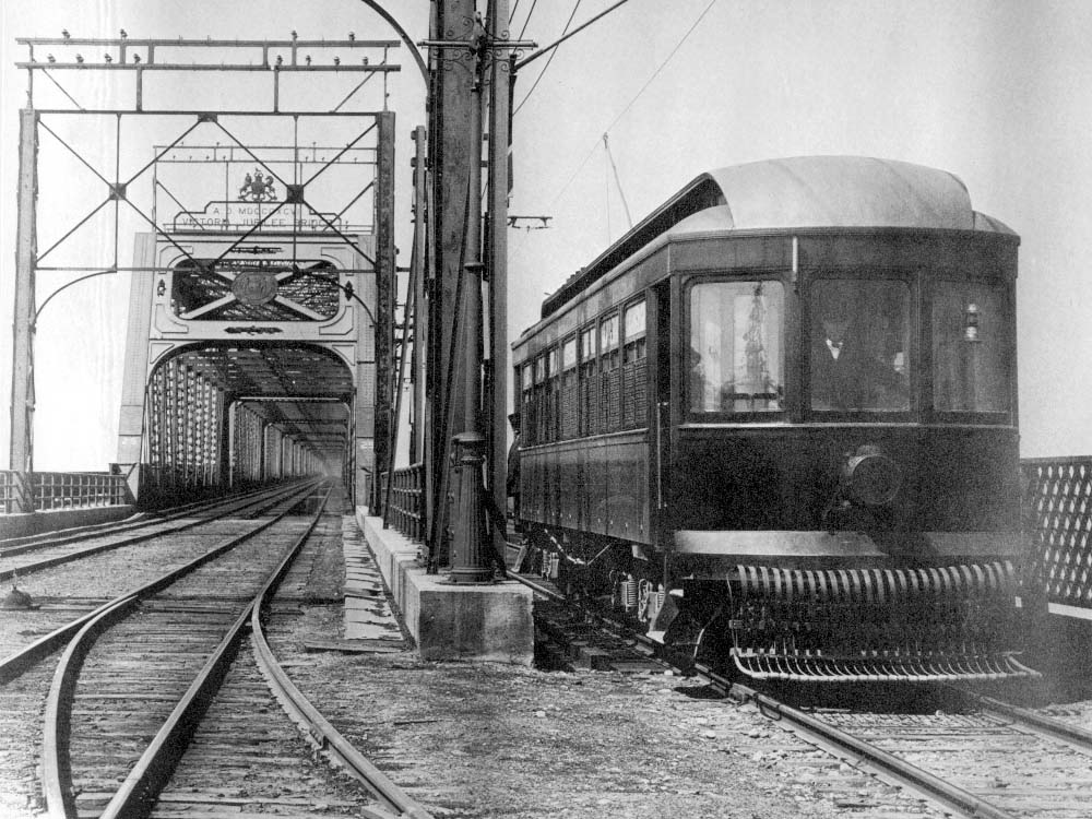 The first Montreal & Southern Counties tram arrives in Saint-Lambert via the Victoria Bridge. Montreal & Southern Counties was an interurban streetcar line that ran between Montreal and Granby from 1909 to 1956.